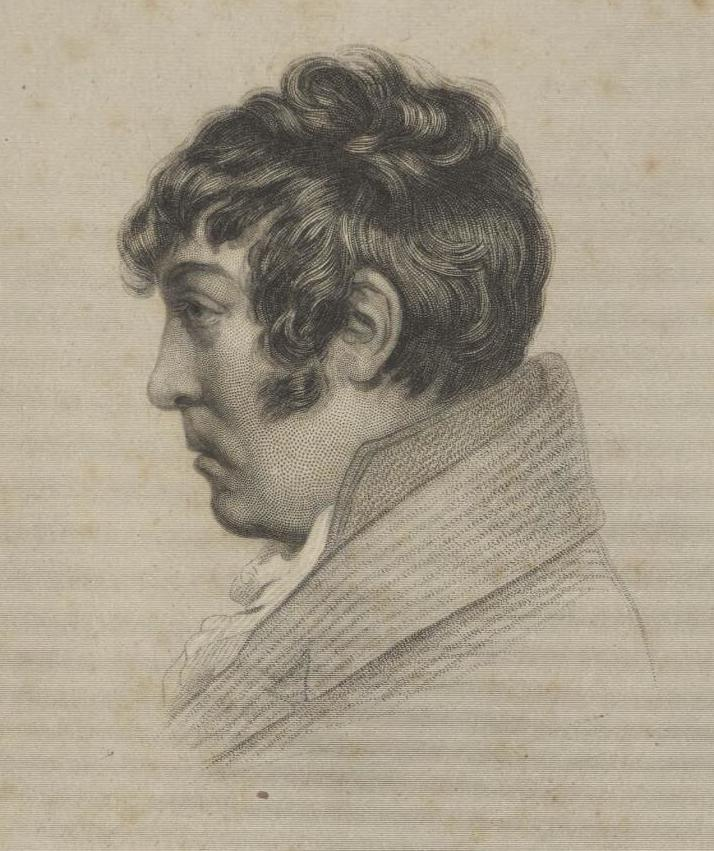 A portrait from the Welsh Portrait Collection at the National Library of Wales. Depicted person: Walter Savage Landor – British writer